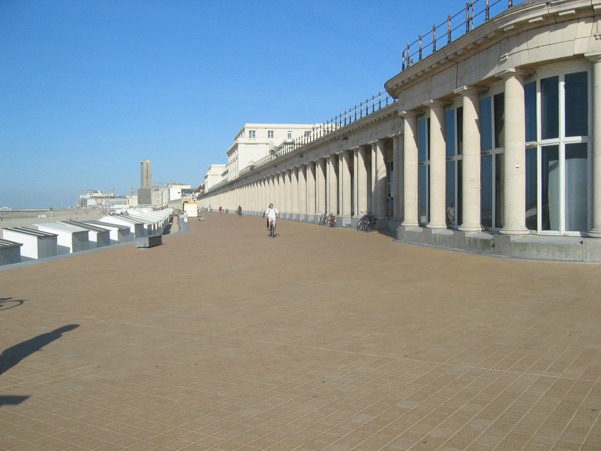 Royal Galleries at Ostend beach.